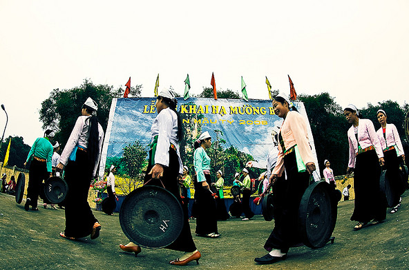 Festival Khai Ha - Muong Bi, Hoa Binh Province.